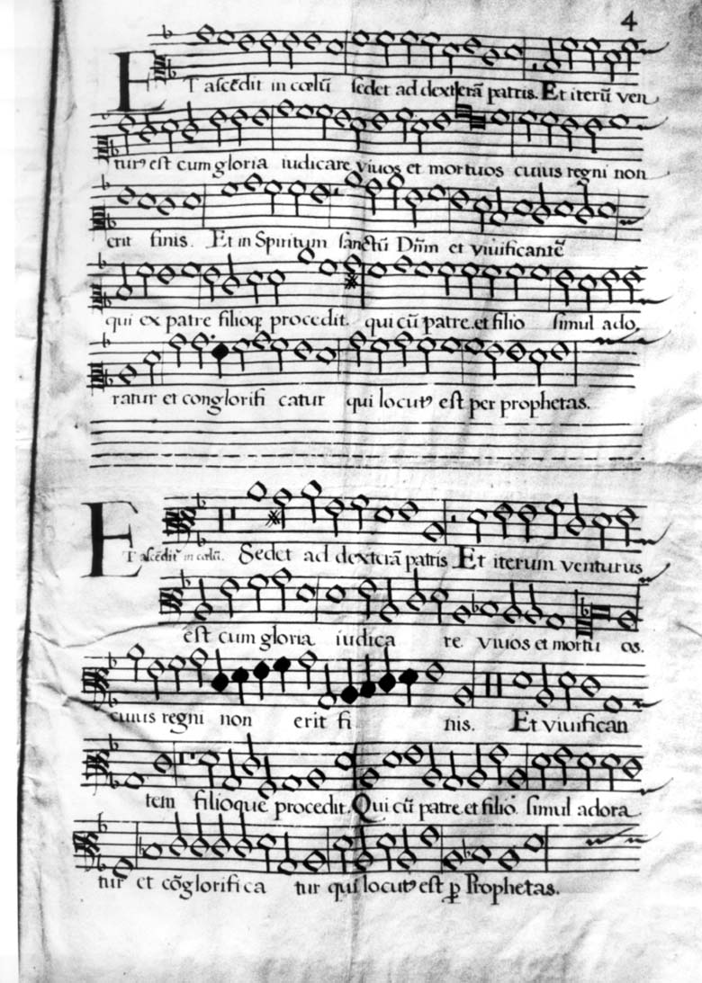 Alonso Lobo's "Credo Romano". Manuscript in El Escorial (Madrid; Spain).